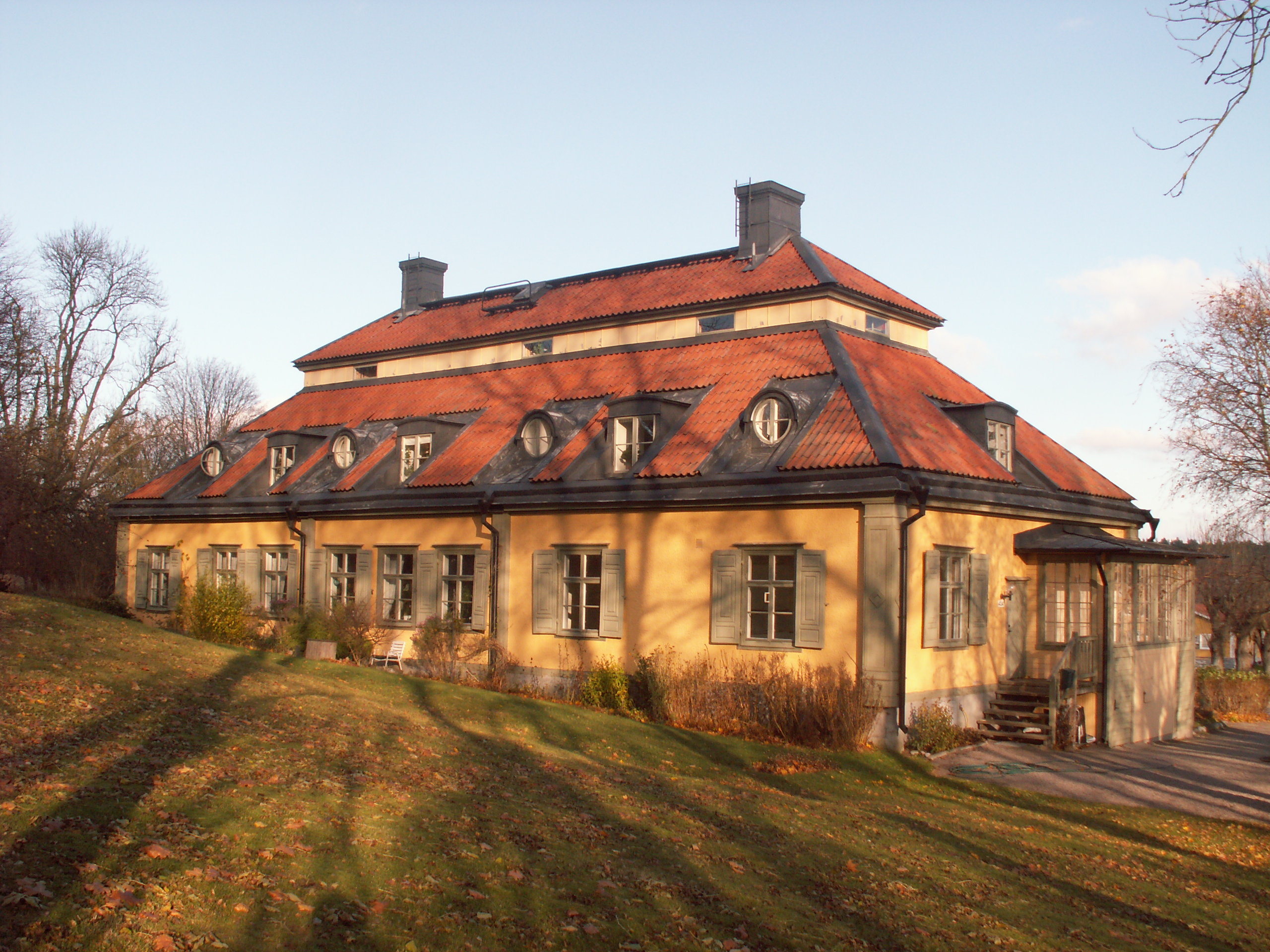 The Långbro estate, Stockholm